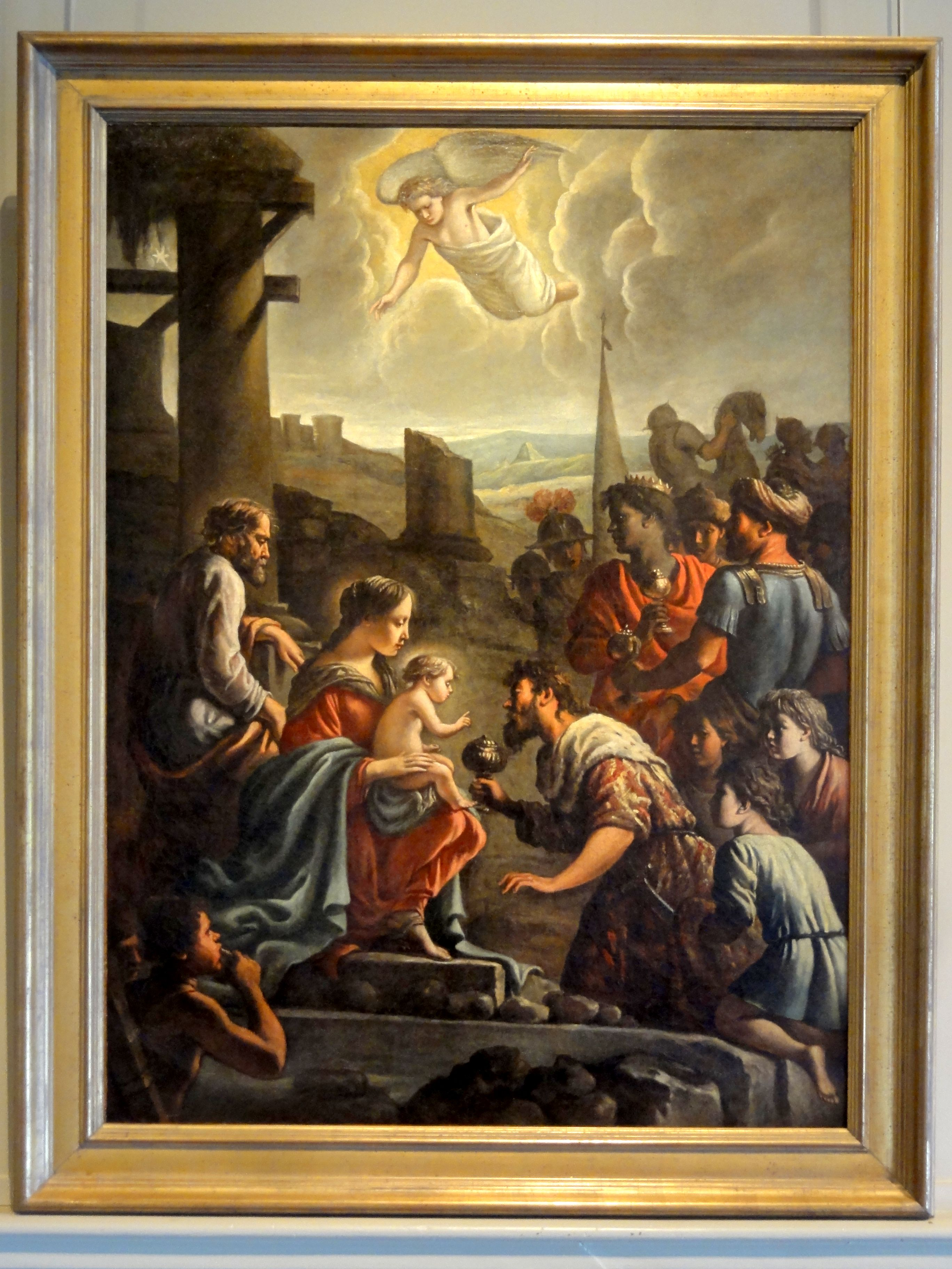 The Adoration of the Magi